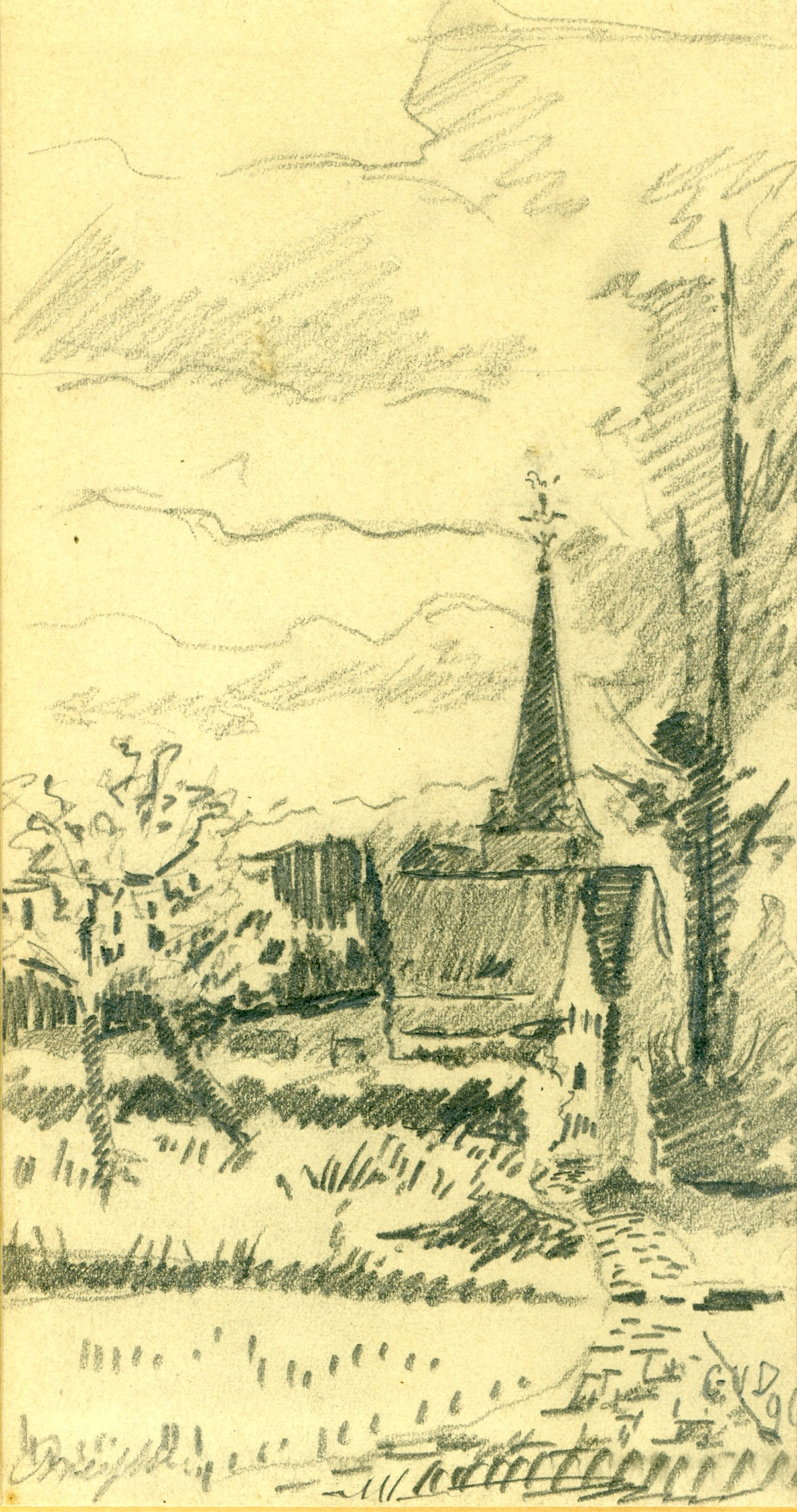 The Church of Meise (Belgium, Brabant) drawing of Gabriel Van Dievoet (1875-1934)